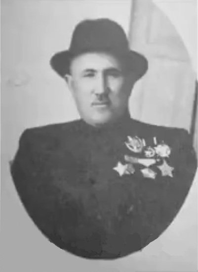 Fatih Muslimov (1900=1980), a leader of the Gongha rebelion in 1944. Gongha is now Nilka County.